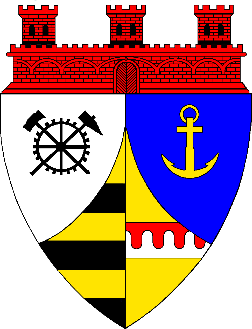 The upper right corner shows a wheel and some miner's tools, symbols of the industry and mining in the area. The blue anchor symbolises the importance of shipping. The point shows the combined arms of the Mylendonck (black bars) and Stecke families, who ruled the town as vassals of the Dukes of Kleve. The oldest seal of Meiderich dates from 1449 and shows the patron saint, St. George, killing the dragon, with besides him a shield woth the arms of the Stecke family. In 1478 the Mylendonck family acquired the estate through marriage. They ruled the town until 1633. The arms were granted in 1895.